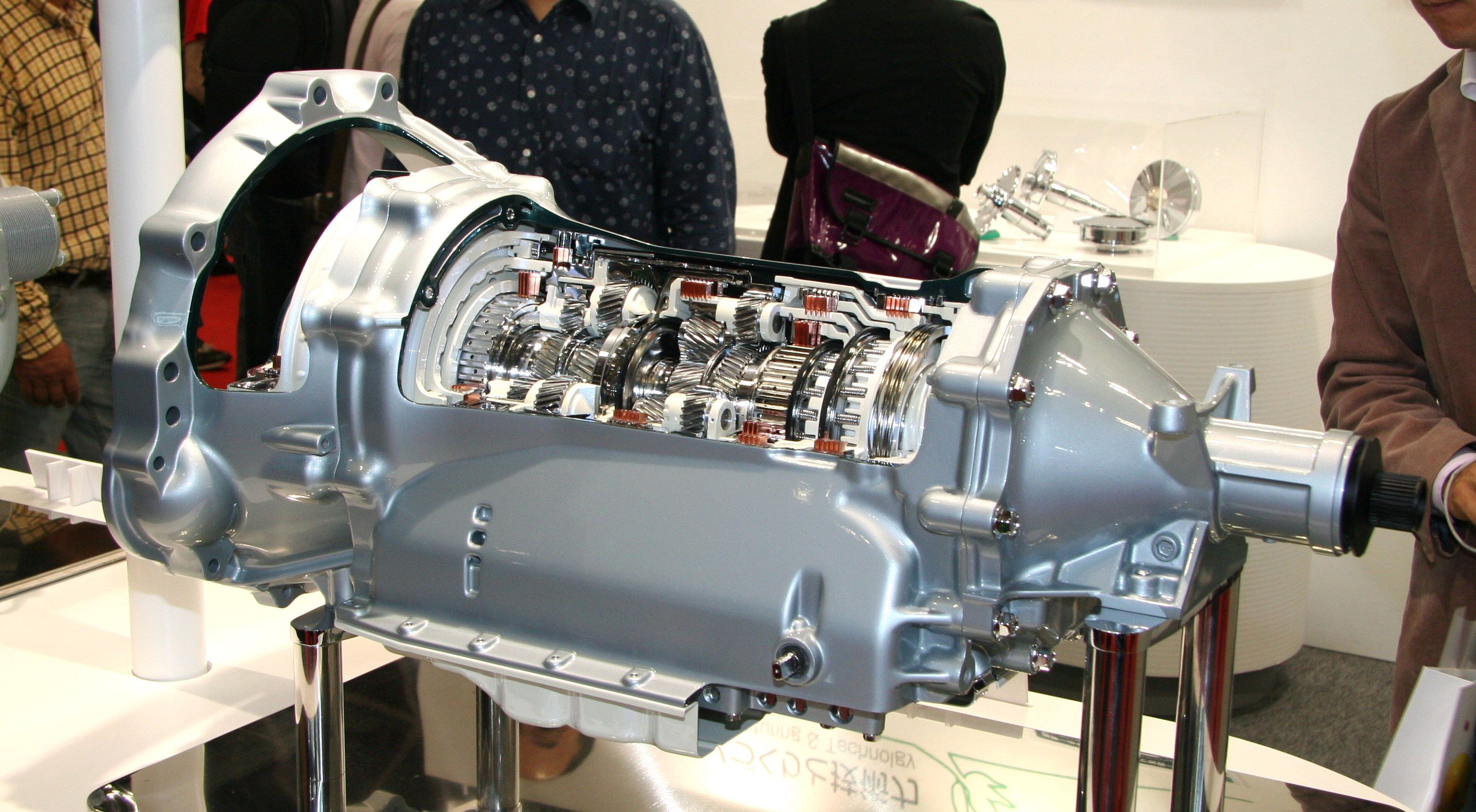 Jatco 7-speed AT